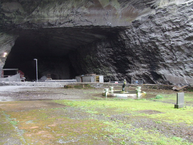 Grotty grotto Well, 'grotto' is what the tourist map describes it as. (It's actually a working slate mine but someone's thrown in statues of the Virgin Mary and an ibis. Apparently, that's enough to make it a grotto.)